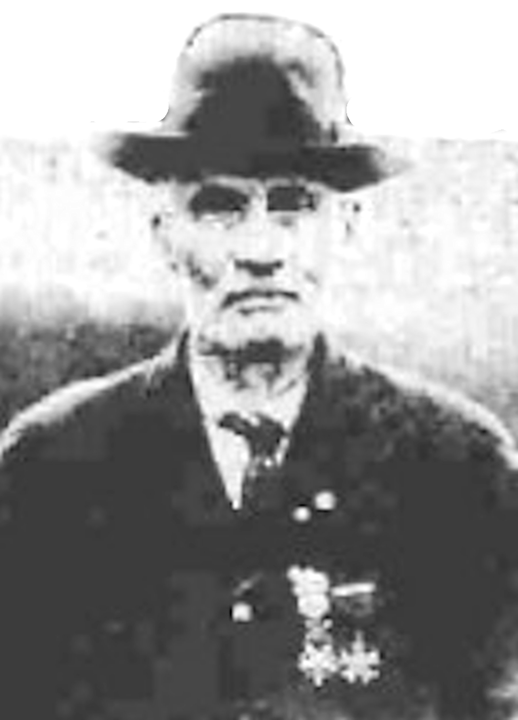 Medal of Honor winner Albert O'Connor